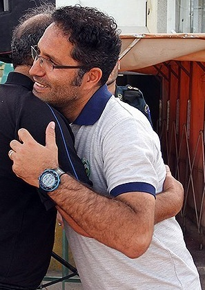 Akbar Mohammadi